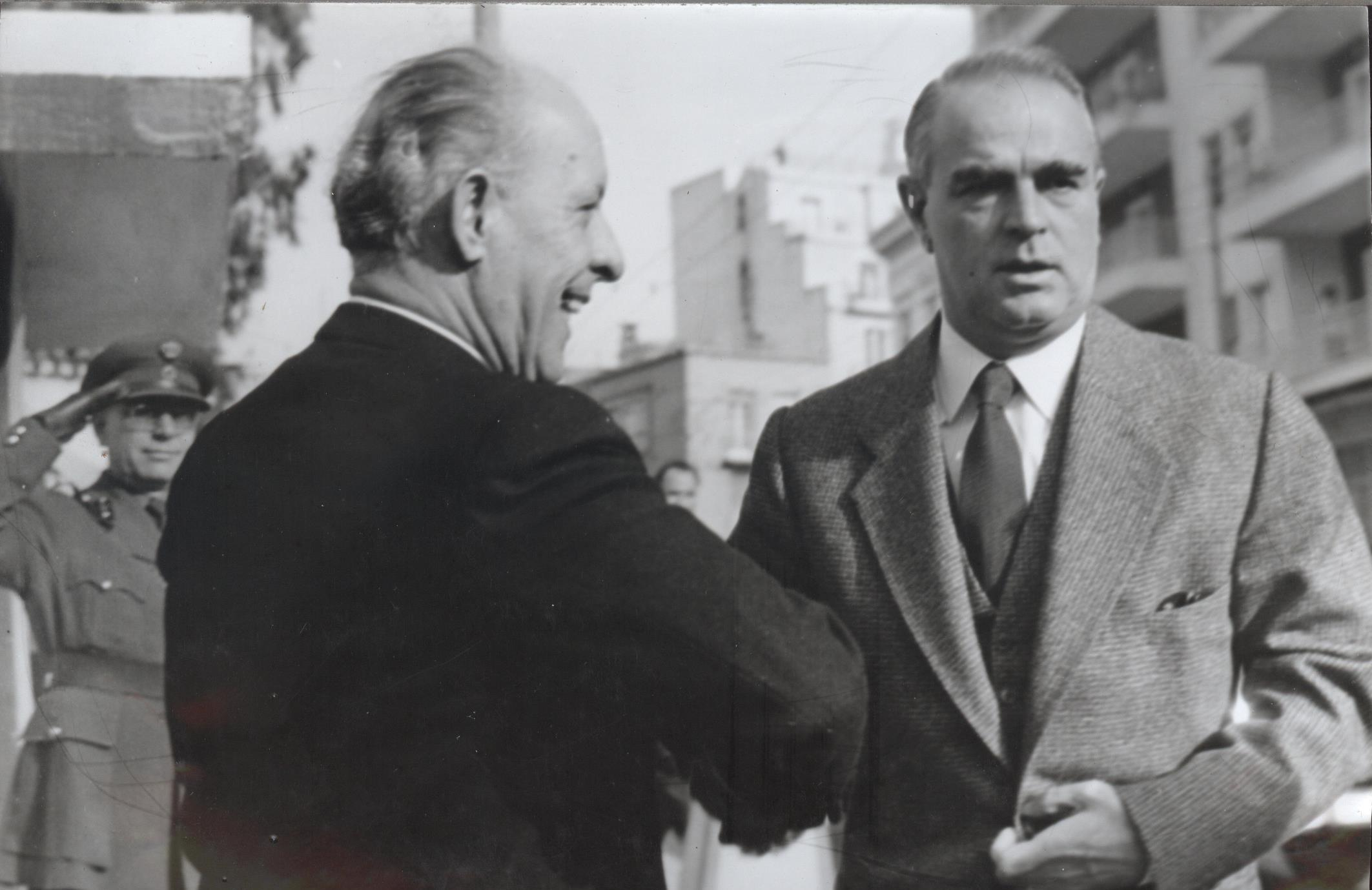 Prime Minister Konstantinos Karamanlis with Interior Minister Evangelos Kalantzis at the Royal Gendarmerie School